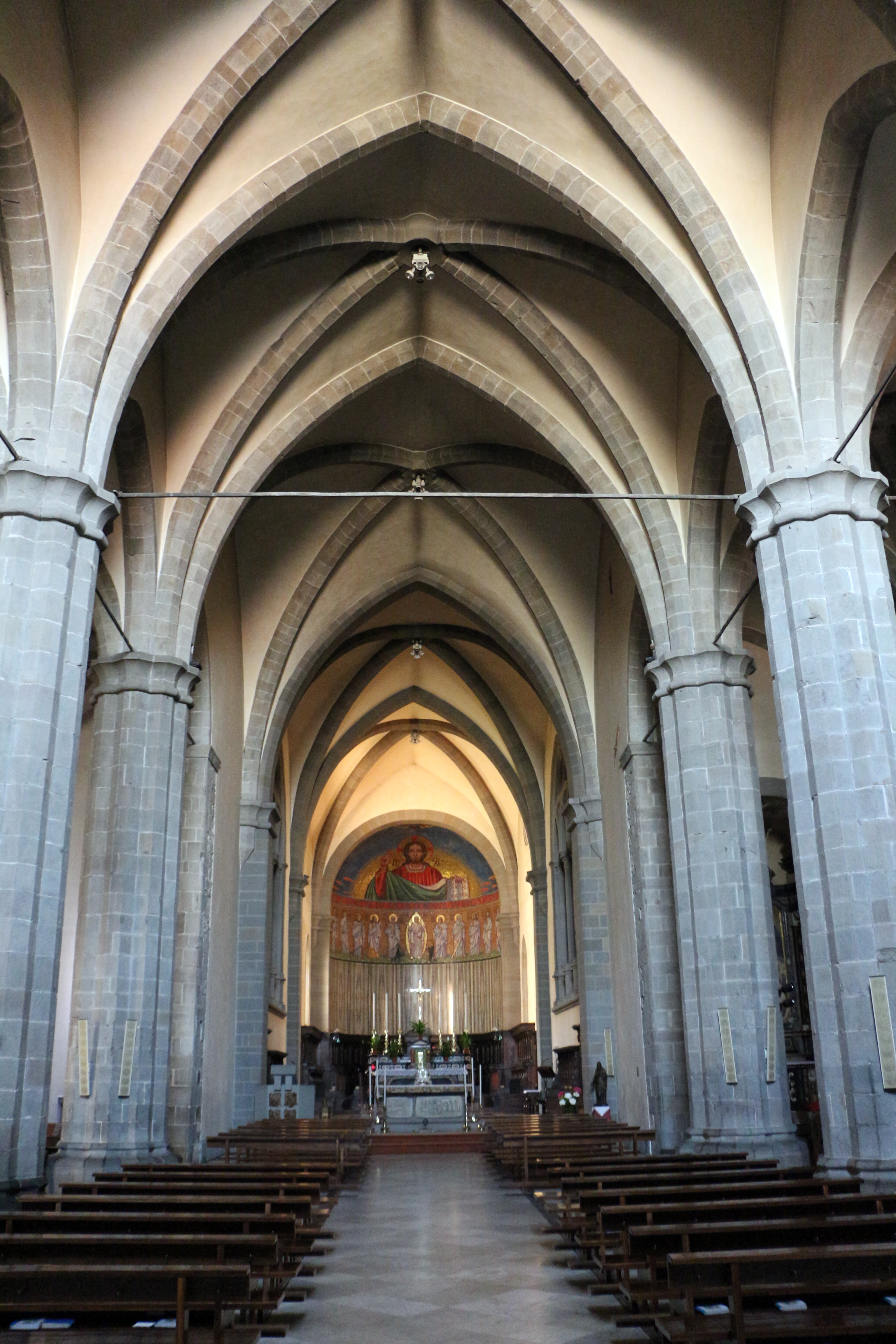 Abbazia di Pontida